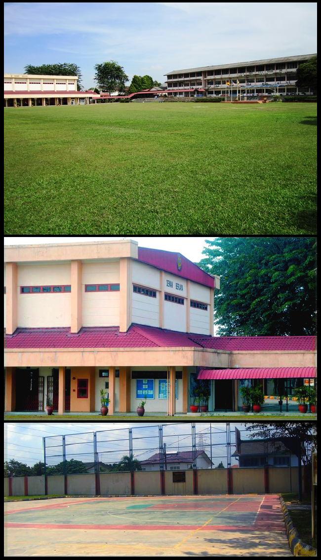 The pictures are taken in SMK Taman SEA, Petaling Jaya, Selangor, Malaysia. And edited by User:Purificationwiki. All three pictures are taken and edited by own. Copyright details are shown below.